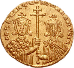 Constantine VII Porphyrogenitus, with Romanus II. 913-959. AV Solidus (20mm, 4.43 g). Constantinople mint. Struck 945-959. Crowned facing busts of Constantine VII and Romanus II, holding patriarchal cross between them; pellet at base. DOC 15; SB 1751.